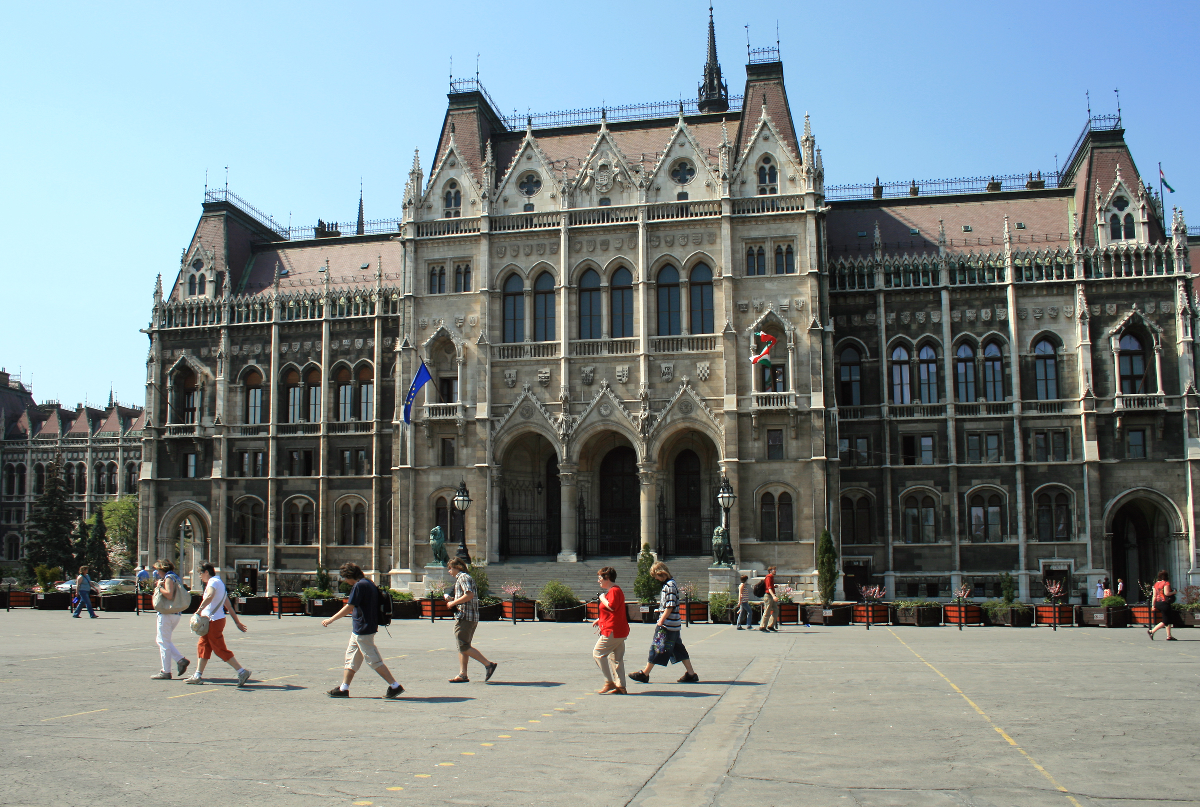 View on front of Parliament of Hungary, Budapest, Hungary